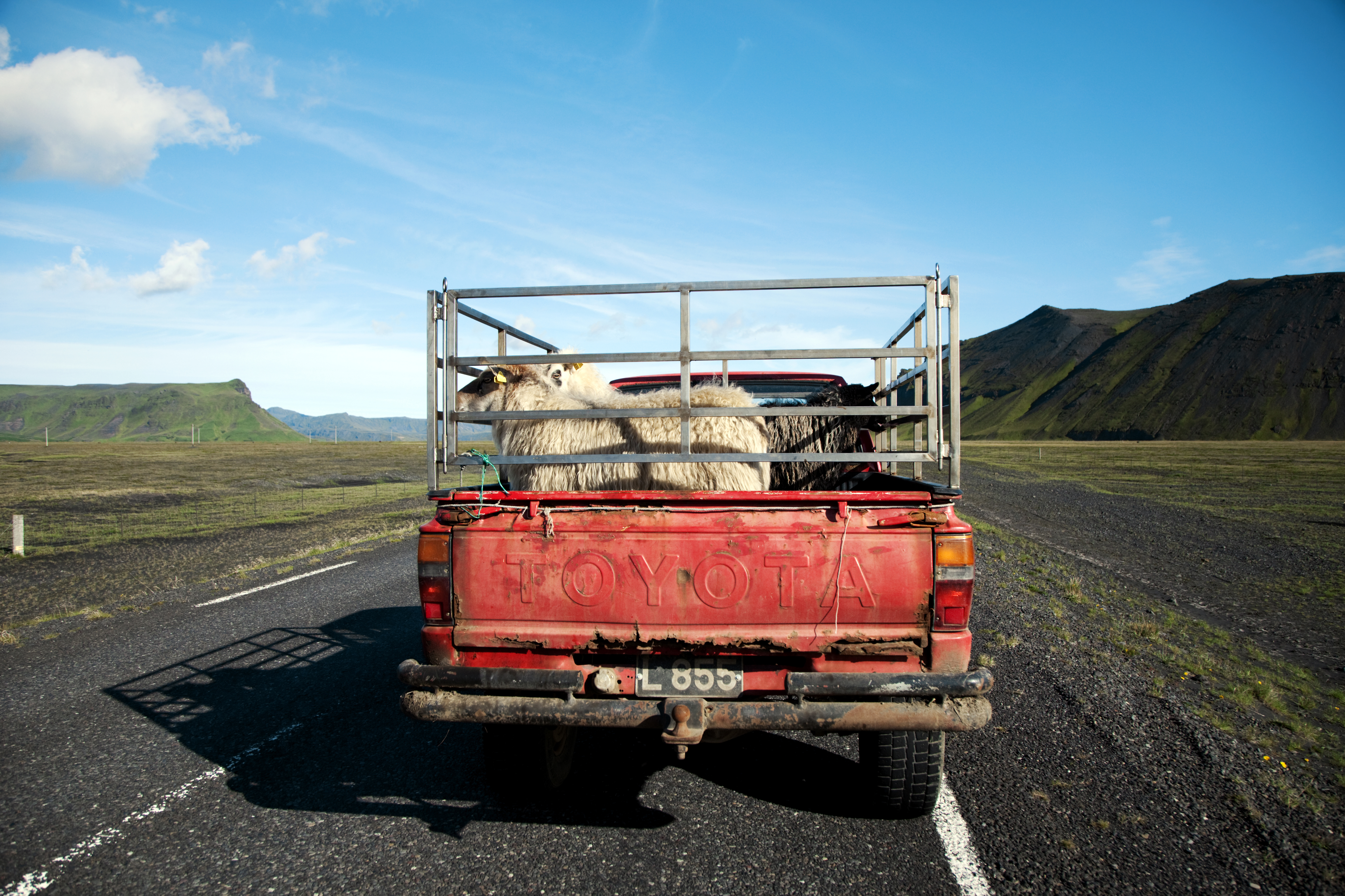 Sauetransport Keywords: Landscape, Transport, Iceland